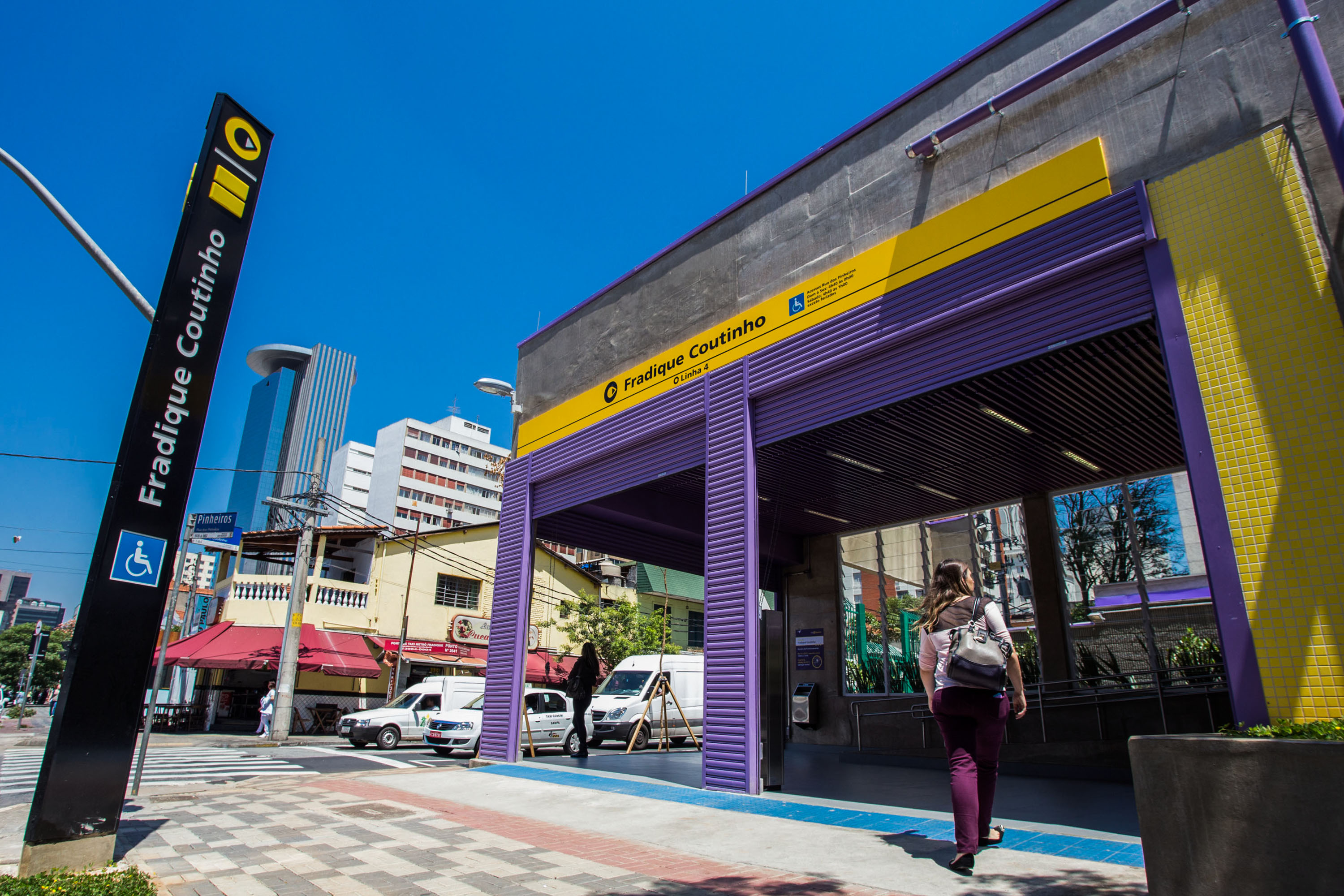 Especial da nova Estação Fradique Coutinho, da Linha 4 do metrô em São Paulo.Data: 18/11/2014. Local: São Paulo/SP.Foto: Diogo Moreira/A2 FOTOGRAFIA